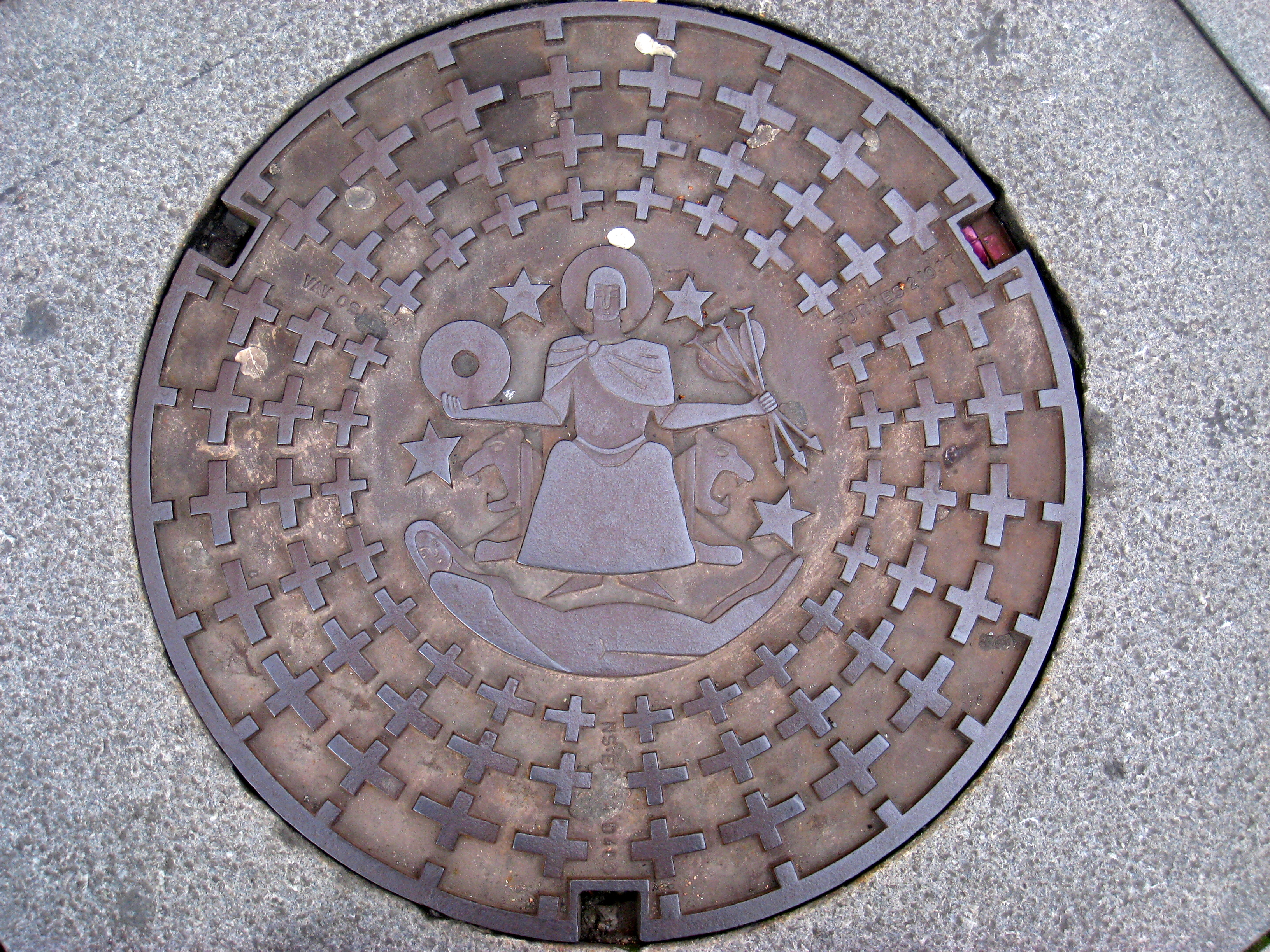 Manhole cover in Oslo, Norway.